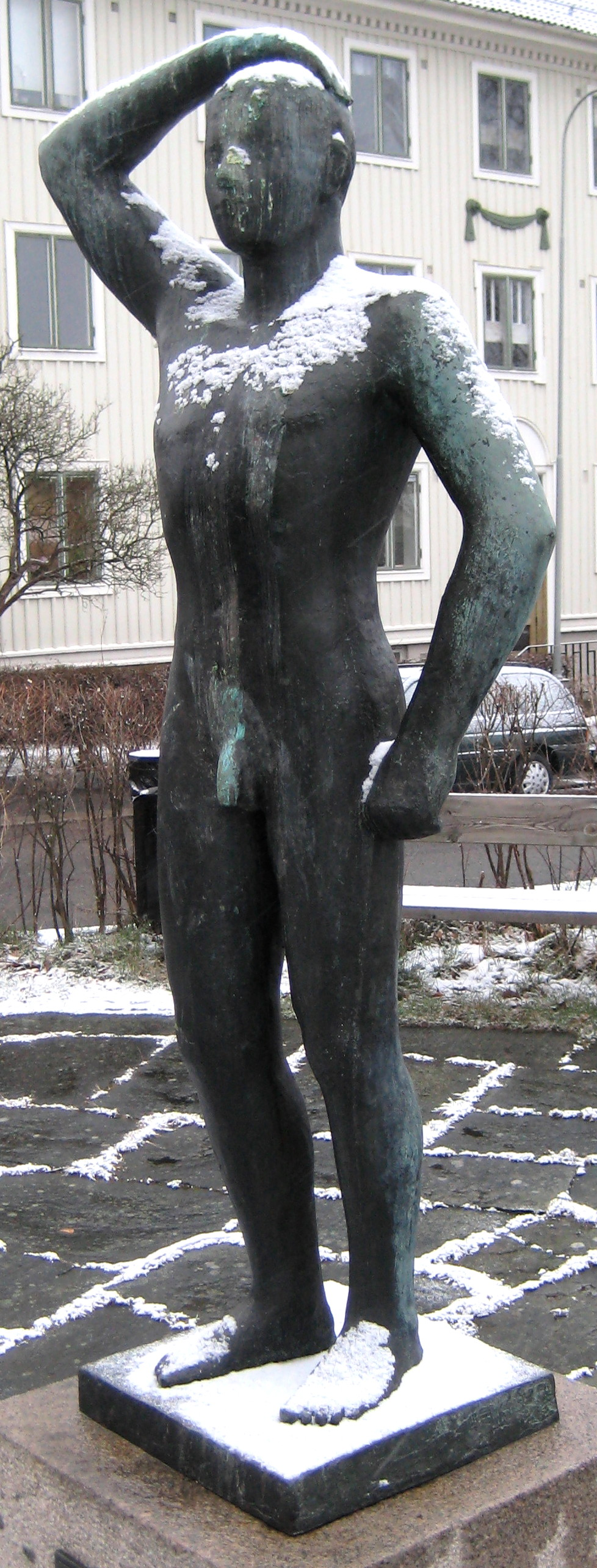 Sculpture by Astrid Noack named "Ung man" placed in Majorna, Gothenburg.